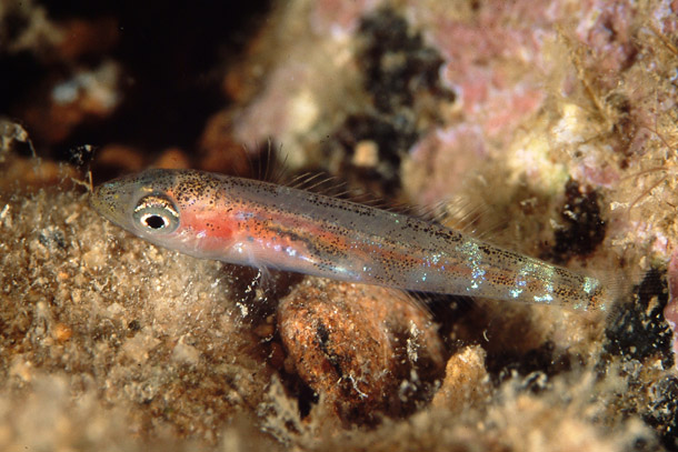 Juvenile Centracanthus cirrus photographed in Tuscany (Italy). Photo by Stefano Guerrieri.